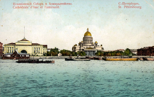 A 19-century view of the Neva river in St Petersburg. On the left the Admiralty building, on the right Saint Isaac's Cathedral.